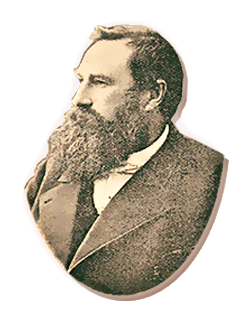 Fridrih_Mihelson photo